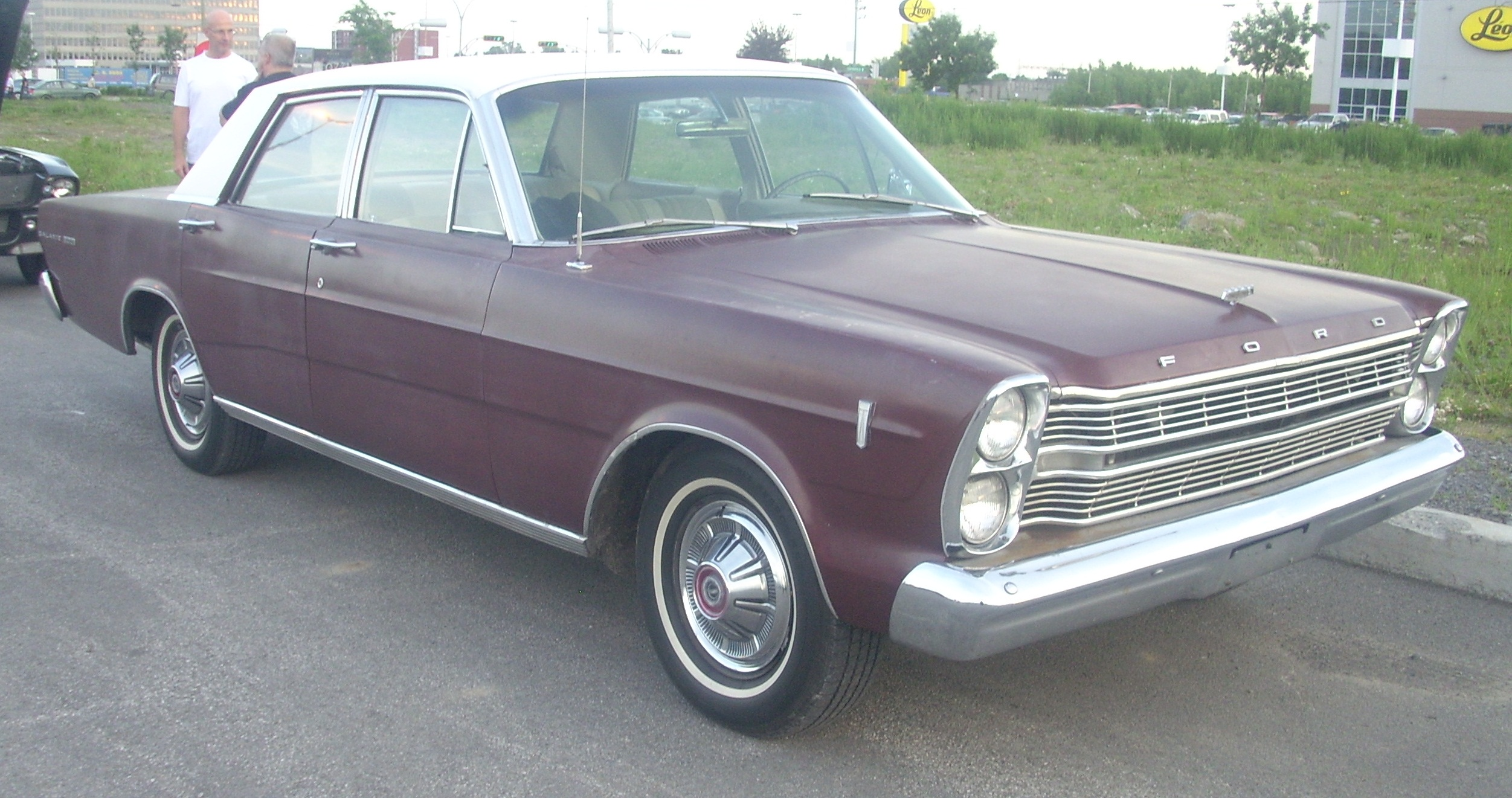 Ford Galaxie 500 photographed in Laval, Quebec, Canada at Centropolis Laval.